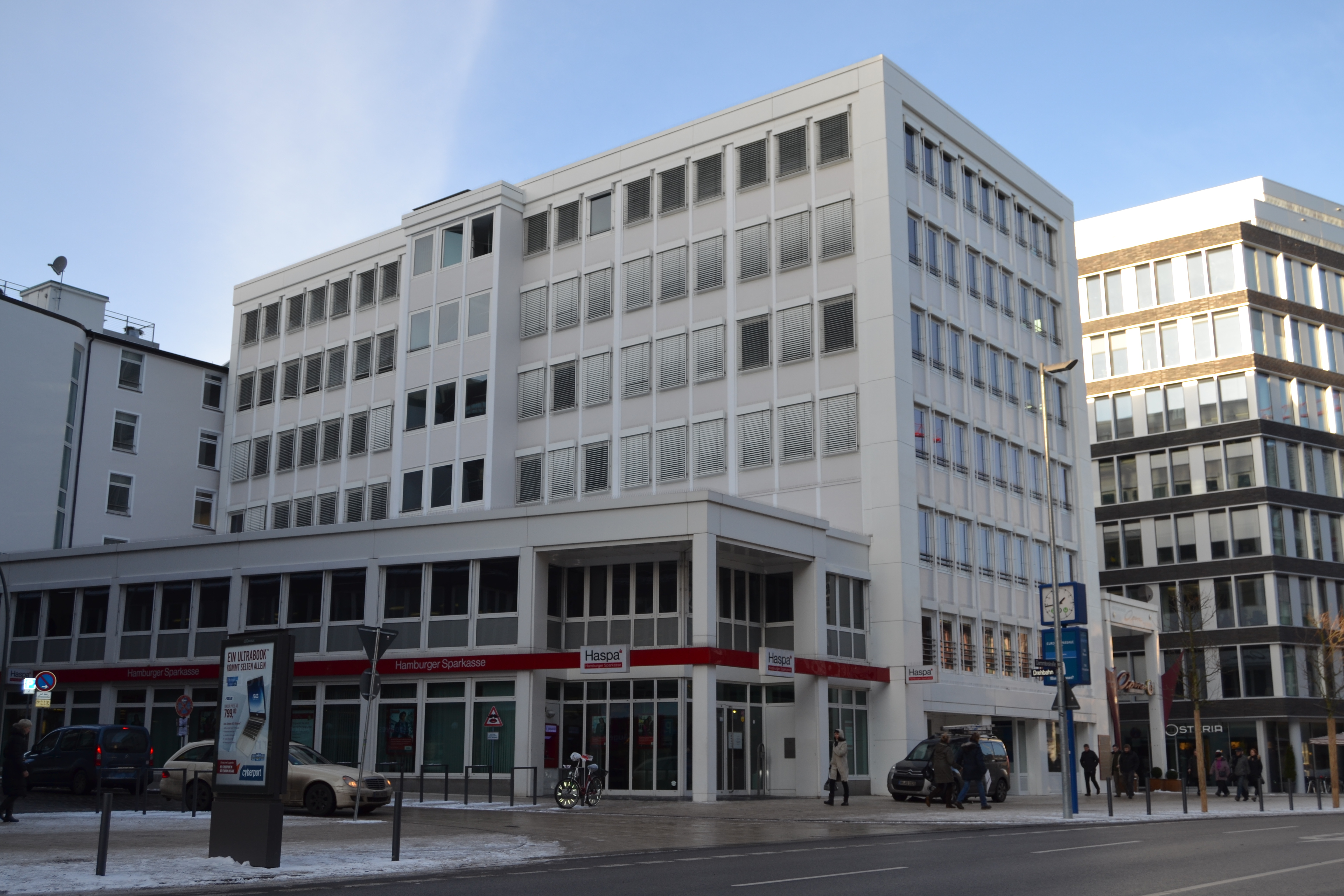 Sozialgericht Hamburg